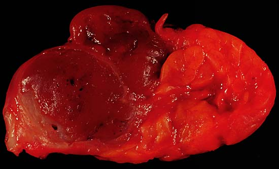 Oncocytoma of the Salivary Gland This lesion presented as a lateral anterior neck mass. At surgery, it was found to be a soft 3.0 x 2.1 x 1.8 cm tumor of the submandibular salivary gland. The photo shows the characteristic dark color of an oncocytoma, a rare type of benign neoplasm, at the left side of the image (the normal lobulated salivary gland tissue is to the right). Excision is curative. Since this specimen was photographed in the fresh state, it is various shades of red due to blood staining. A little formalin fixation would be expected to better emphasize the color difference between the tumor and the normal gland tissue. The photo was shot with a Minolta X-370 with 100mm Rokkor bellows lens on Kodak Elite ISO 100 daylight-balanced transparency film. I used a blue filter to compensate for the tungsten illumination. Photograph by Ed Uthman, MD. Public domain. Posted 19 May 00